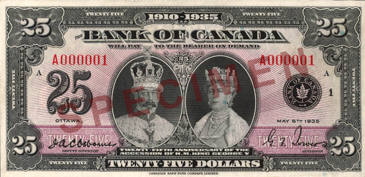 Obverse of English version of a $25 banknote from the 1935 Series. Printed by the Canadian Bank Note Company. Signed by Graham Towers, the Governor of the Bank of Canada, and J.A.C. Osborne, the deputy governor.